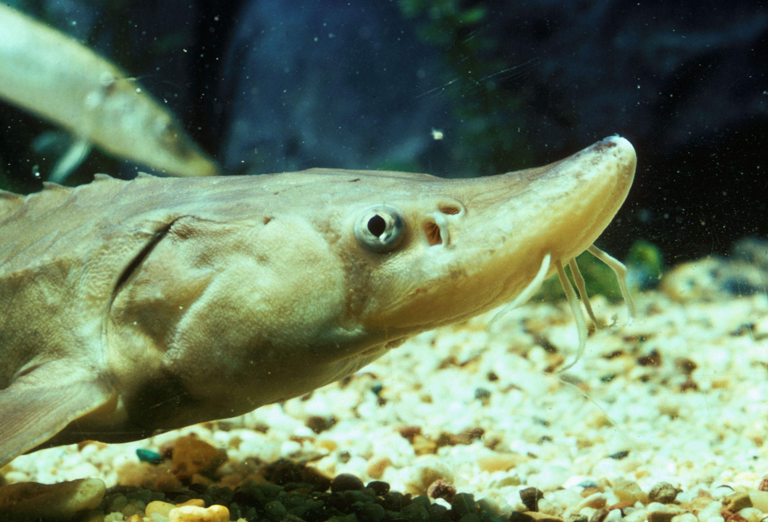 Short-nose Sturgeon (Acipenser brevirostrum) Creator: National Aquarium Source: WO1007-033a Publisher: U.S. Fish and Wildlife Service Downloaded from [1]; also available from [2]